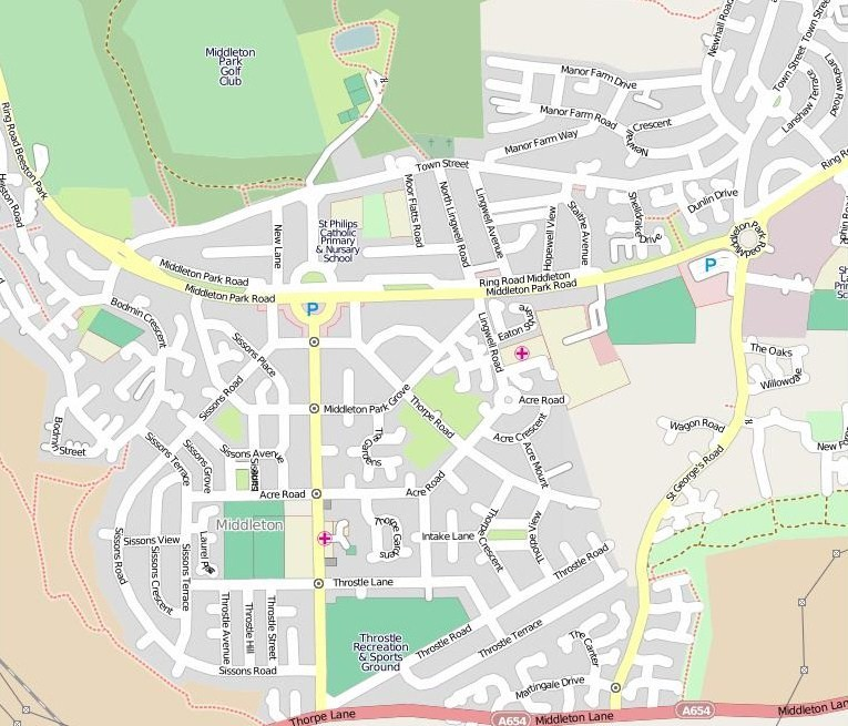 A map of Middleton, Leeds, West Yorkshire. Small parts of Southern Belle Isle are shown to the Right (East) of the image. Copied 29/09/2009.